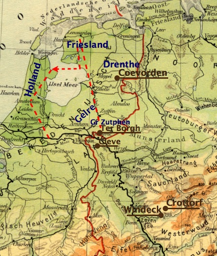 Map of lower Rhine area on which are marked sites important in the life of Johan van Selbach (1483-1563)